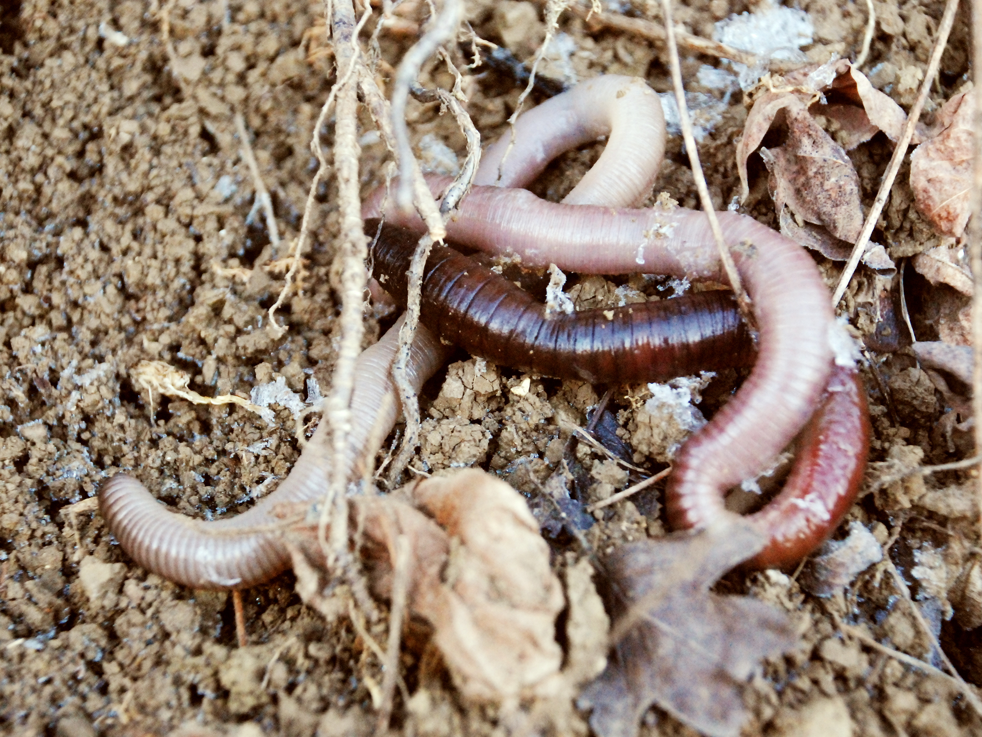 Earthworm is the common name for the largest members of Oligochaeta (which is either a class or subclass depending on the author) in the phylum Annelida. The picture was taken in Slovenian Istria.